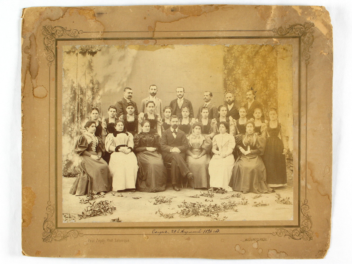 Teachers of bulgarian highschools (men and ladies) in Solun, today Thessaoloniki